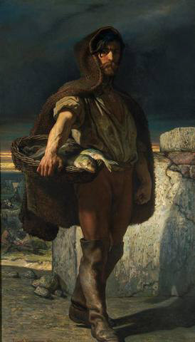 'The proud fisherman', painting by Ernst Slingeneyer